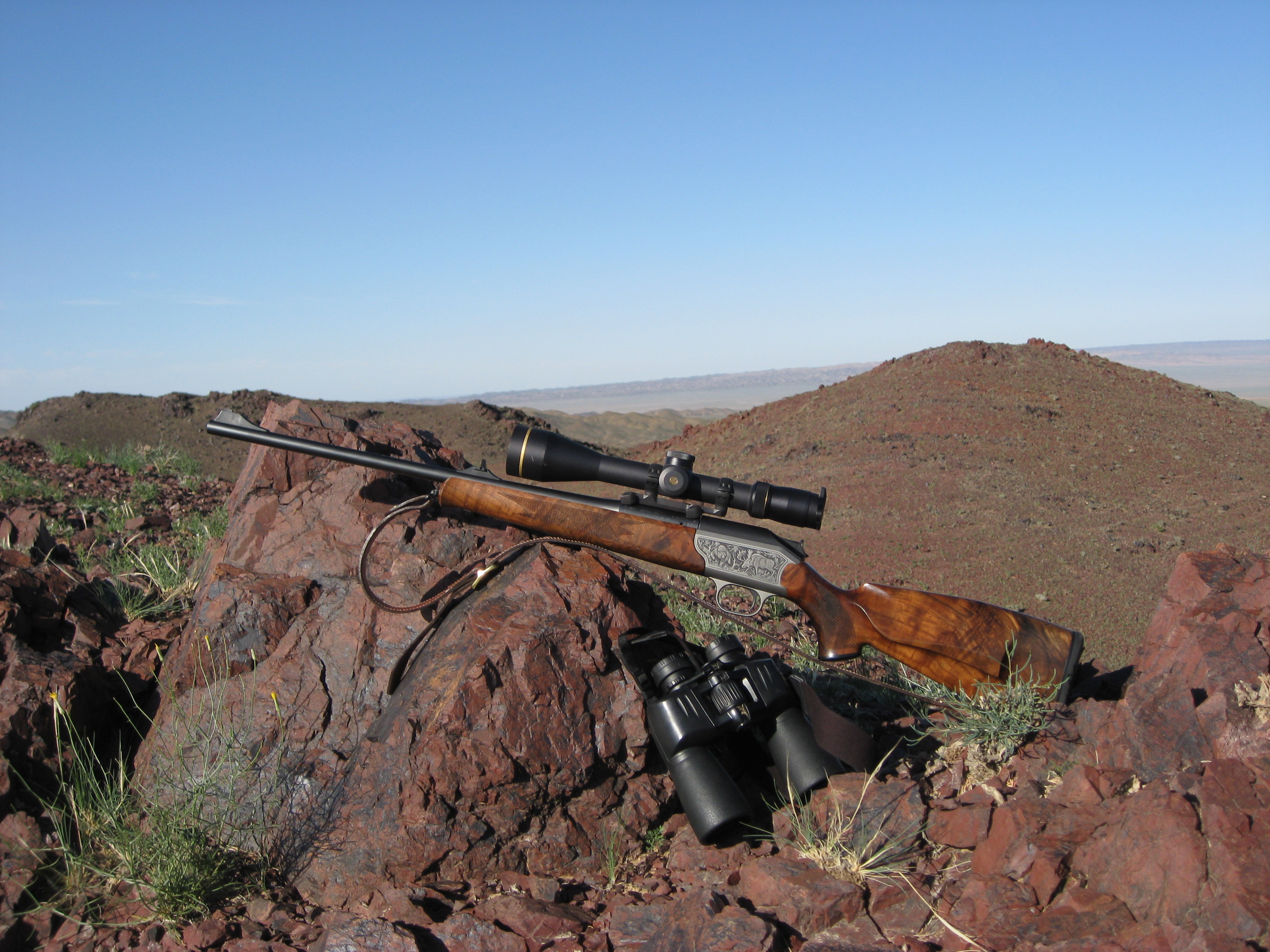 Blaser rifle and a binocular on top of a hill during a Ibex hunting trip in Gobi desert, Mongolia